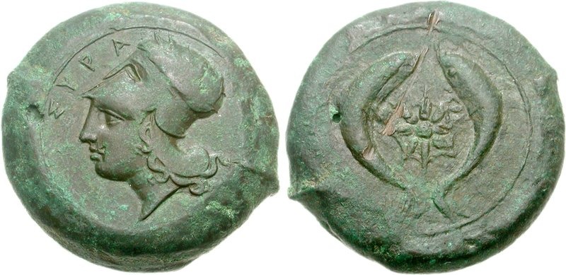 Sicily, Syracusae. Dionysios I. 405-367 BC. Æ Drachm (33.38 g, 12h). Struck circa 380 BC. ΣΥΡΑ Head of Athena left, wearing Corinthian helmet decorated with wreath Sea-star between two dolphins.